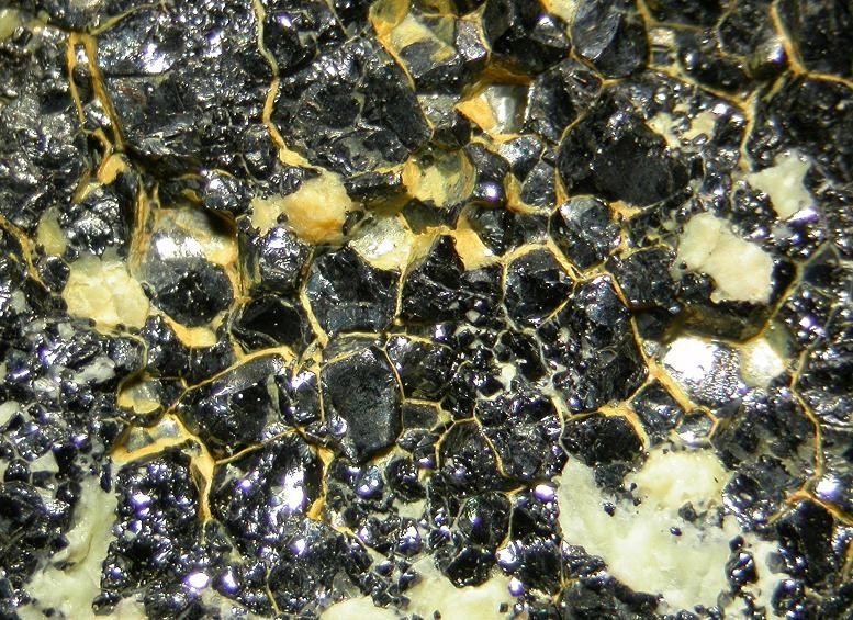 Chromite Locality: Mtoroshanga (Mutorashanga), Mashonaland West, Zimbabwe Field of view 8 mm. Specimen and photo Leon Hupperichs.